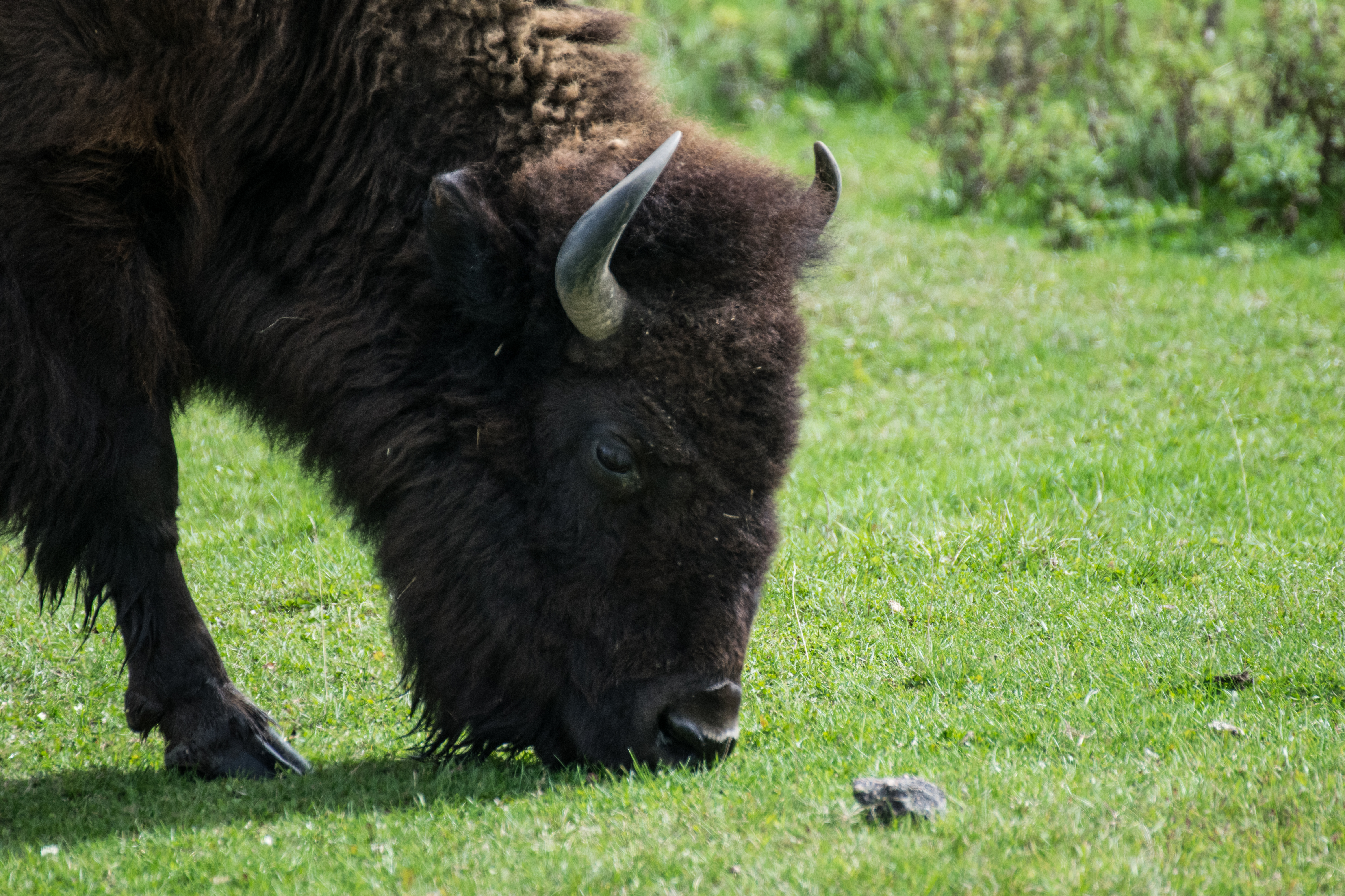 An American bison at the Wild Zoo of St-Félicien (Quebec, Canada).